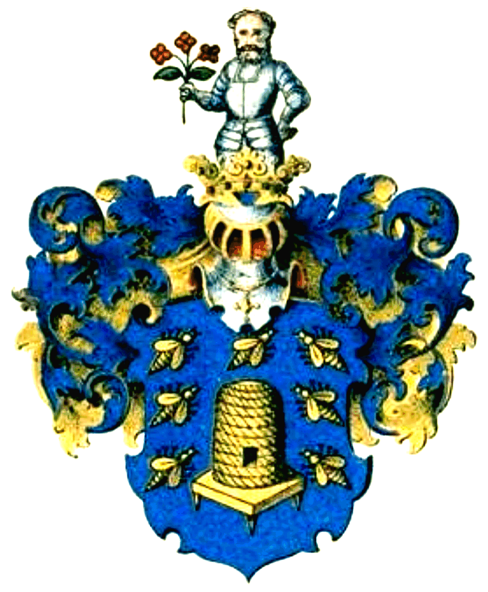 Coat of arms of the Bienemann von Bienenstamm family